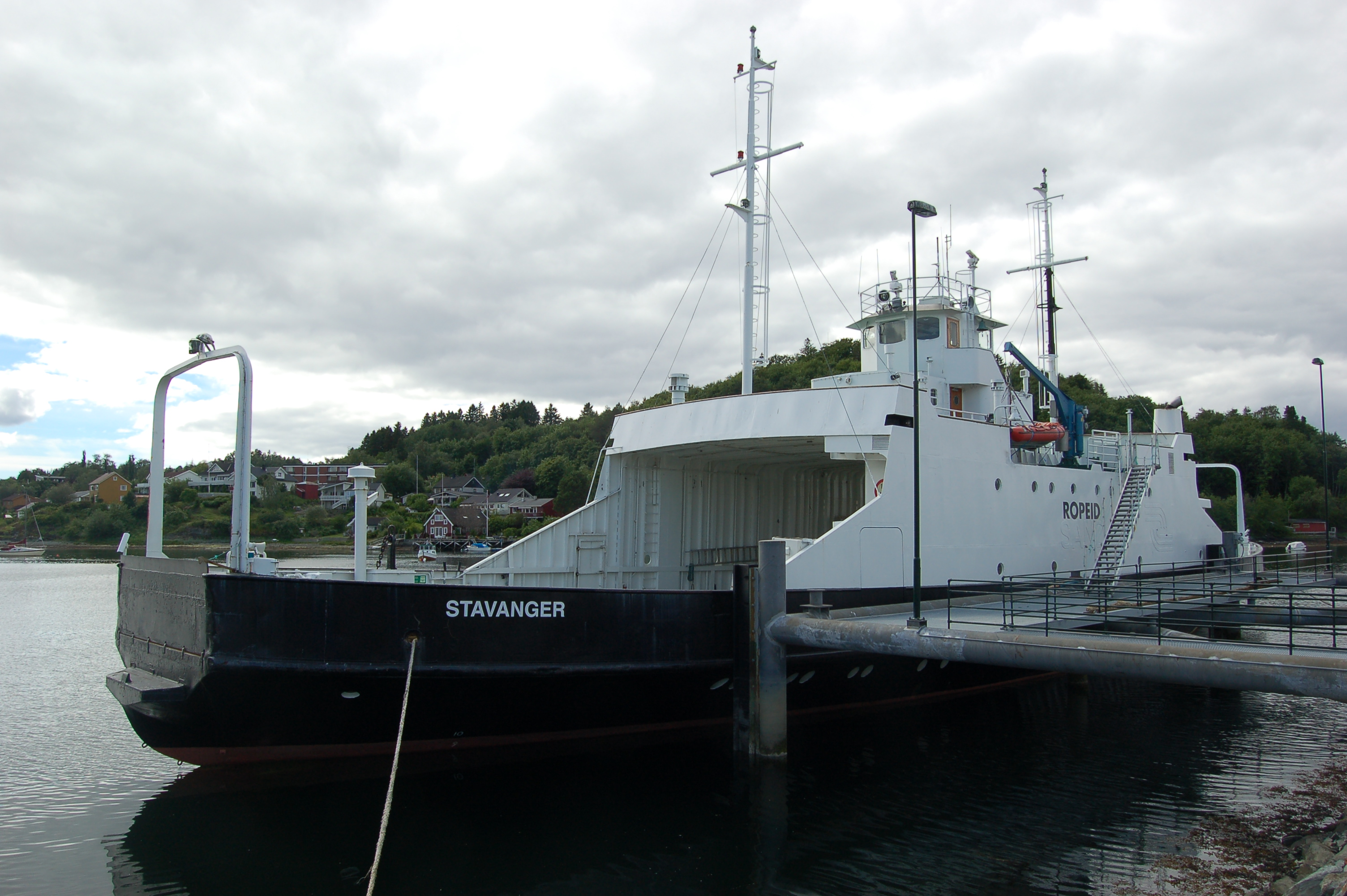 MF Ropeid of Tide Sjø AS; the reserve ferry located in Levanger for the companies routes in Trondheimsfjord.